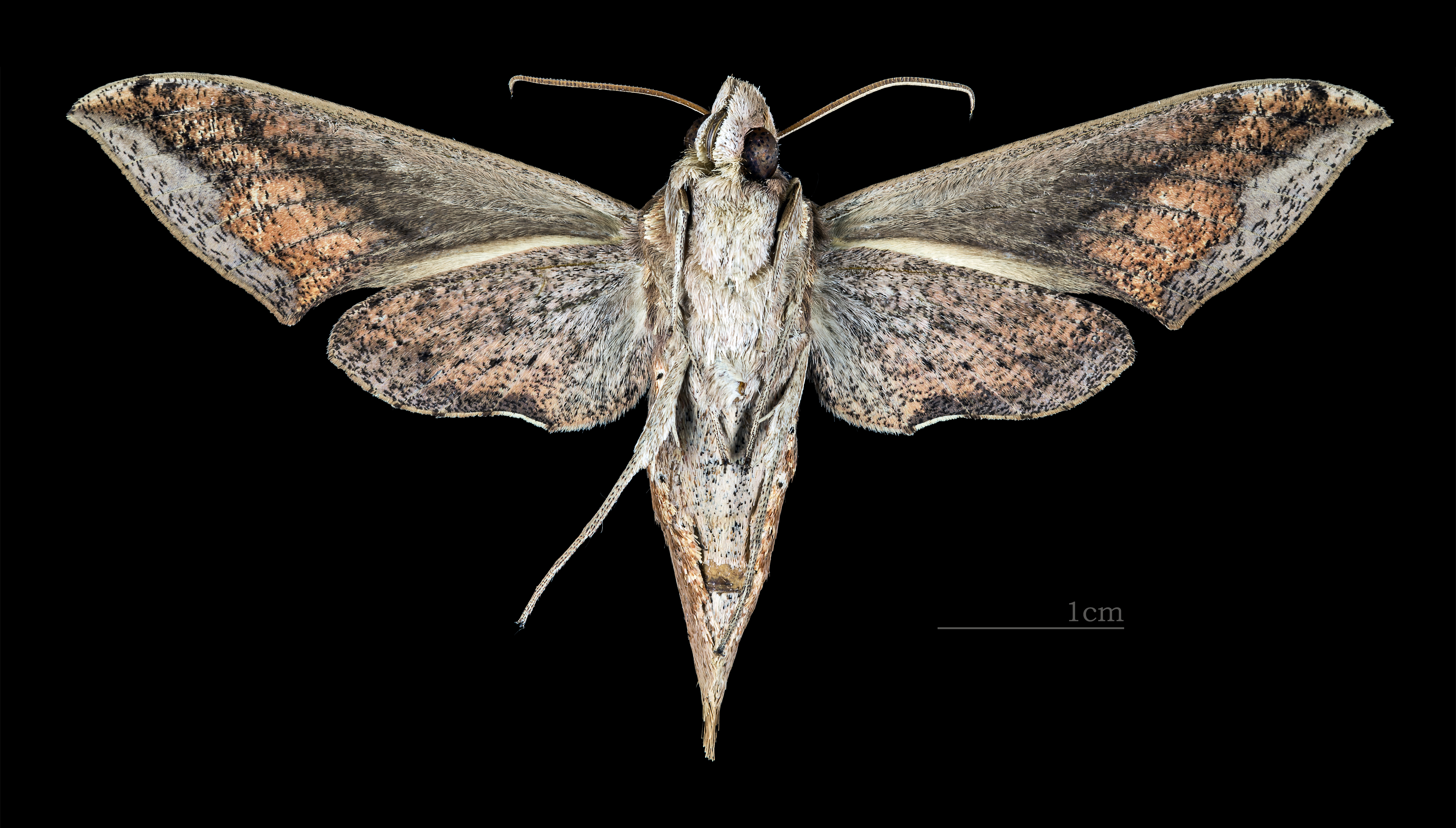 Xylophanes maculator - △ Ventral side Collection of the Mathematician Laurent Schwartz